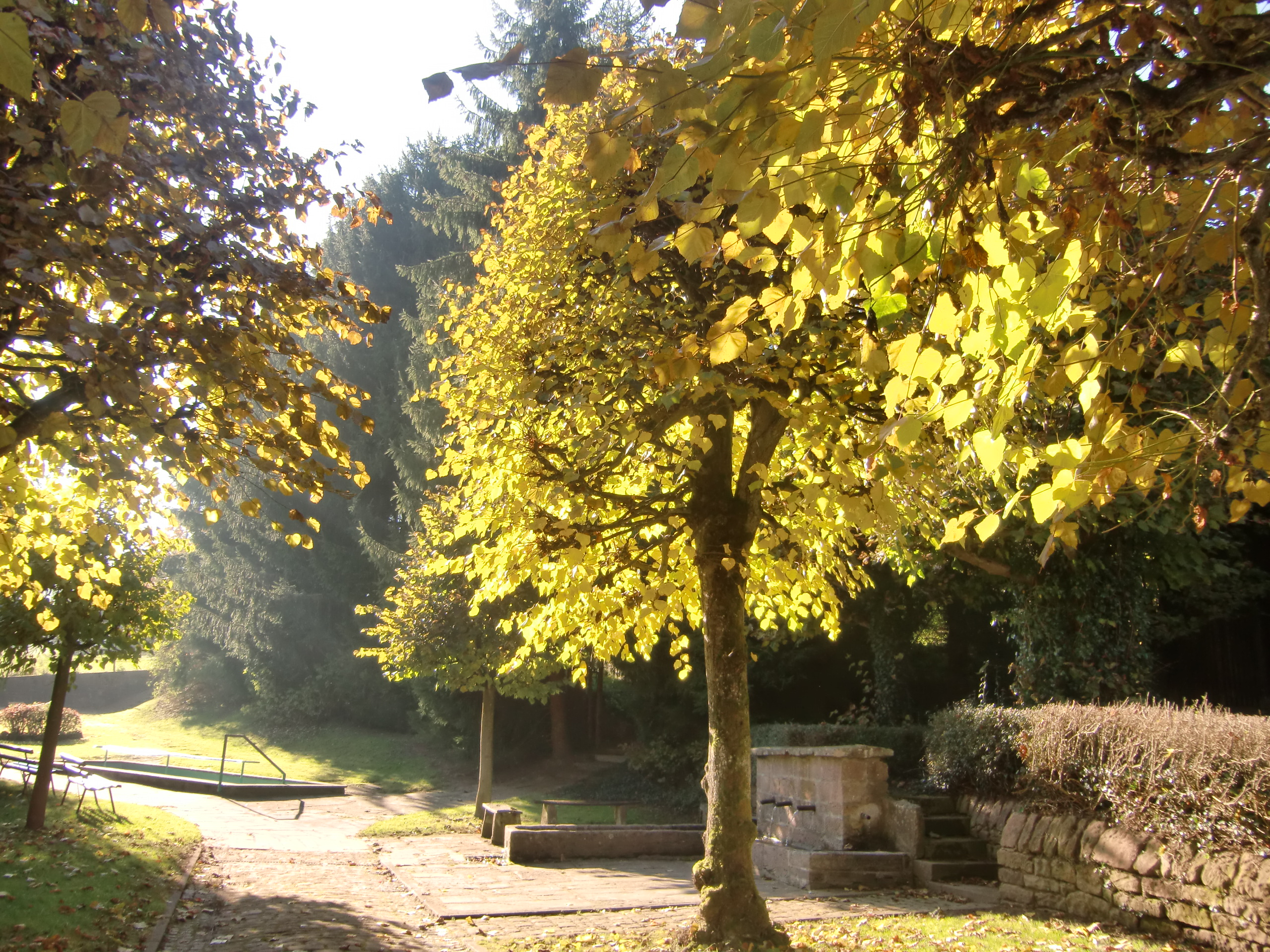 The historic well of the village Vielbrunn.